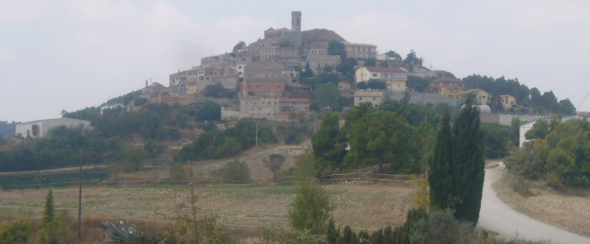 Argençola village